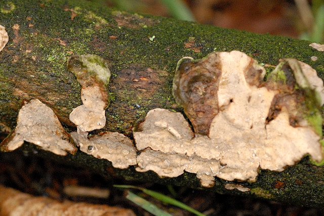 Phanerochaete velutina from Commanster, Belgium. If you think this is a different taxon, please contact James Lindsey.